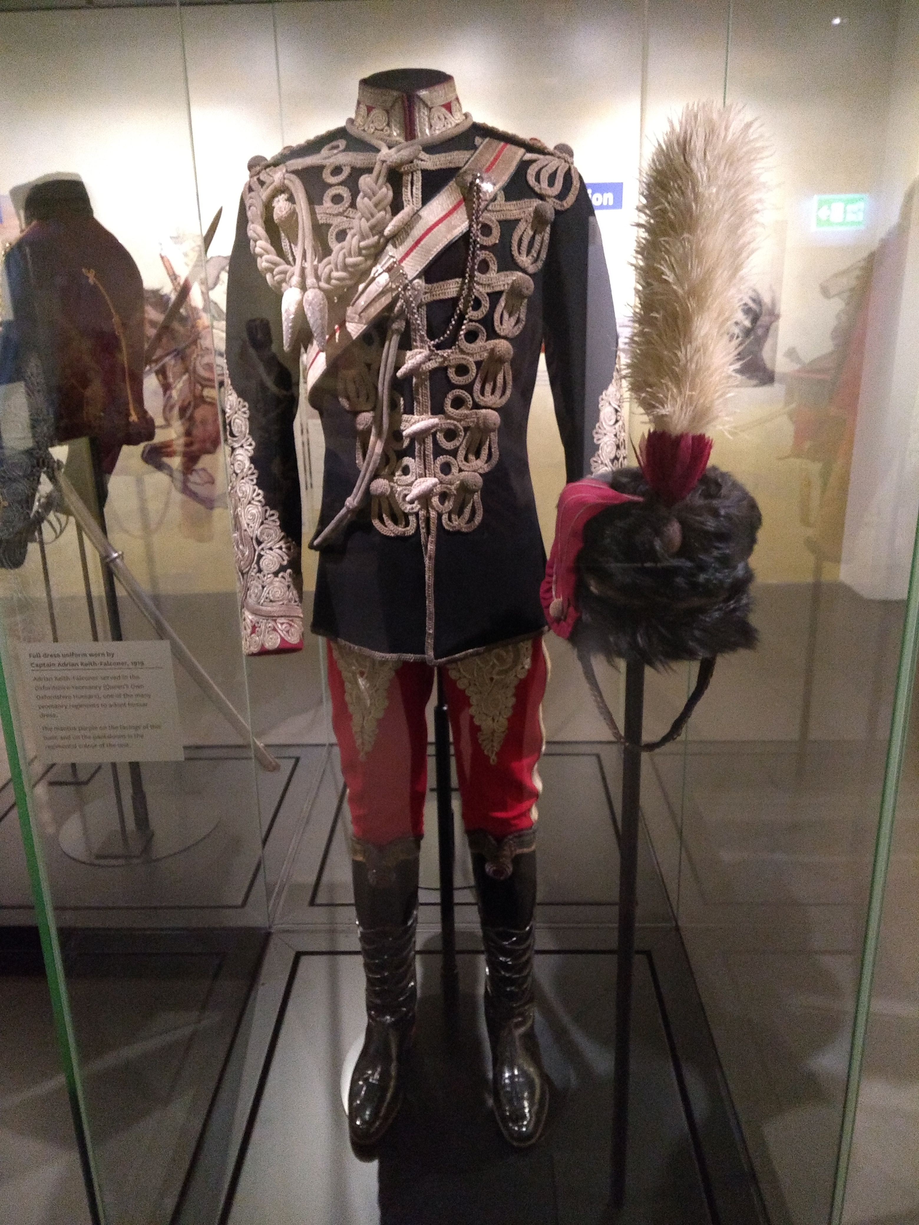 Full dress officer's uniform of the Queen's Own Oxfordshire Hussars, 1919. At the National Army Museum, 2019